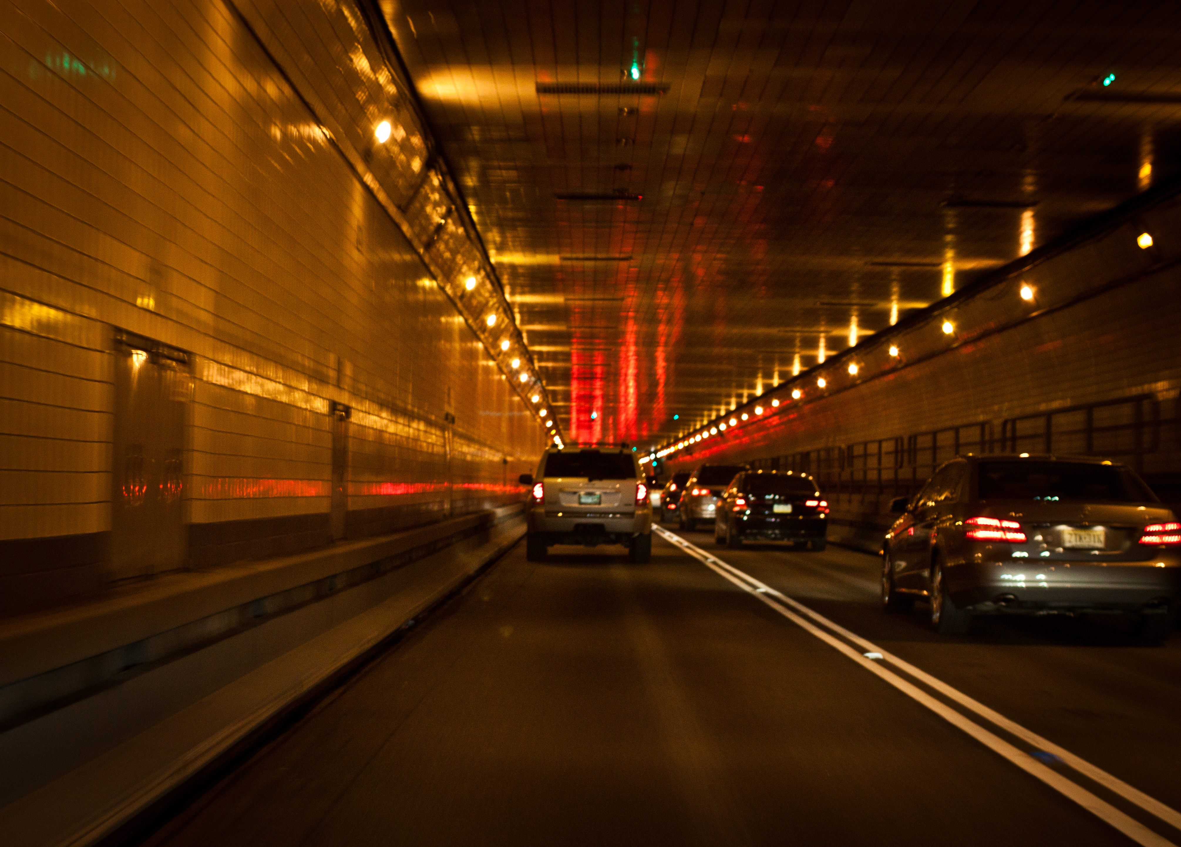 Inside the Lincoln Tunnel that connects New Jersey with New York.